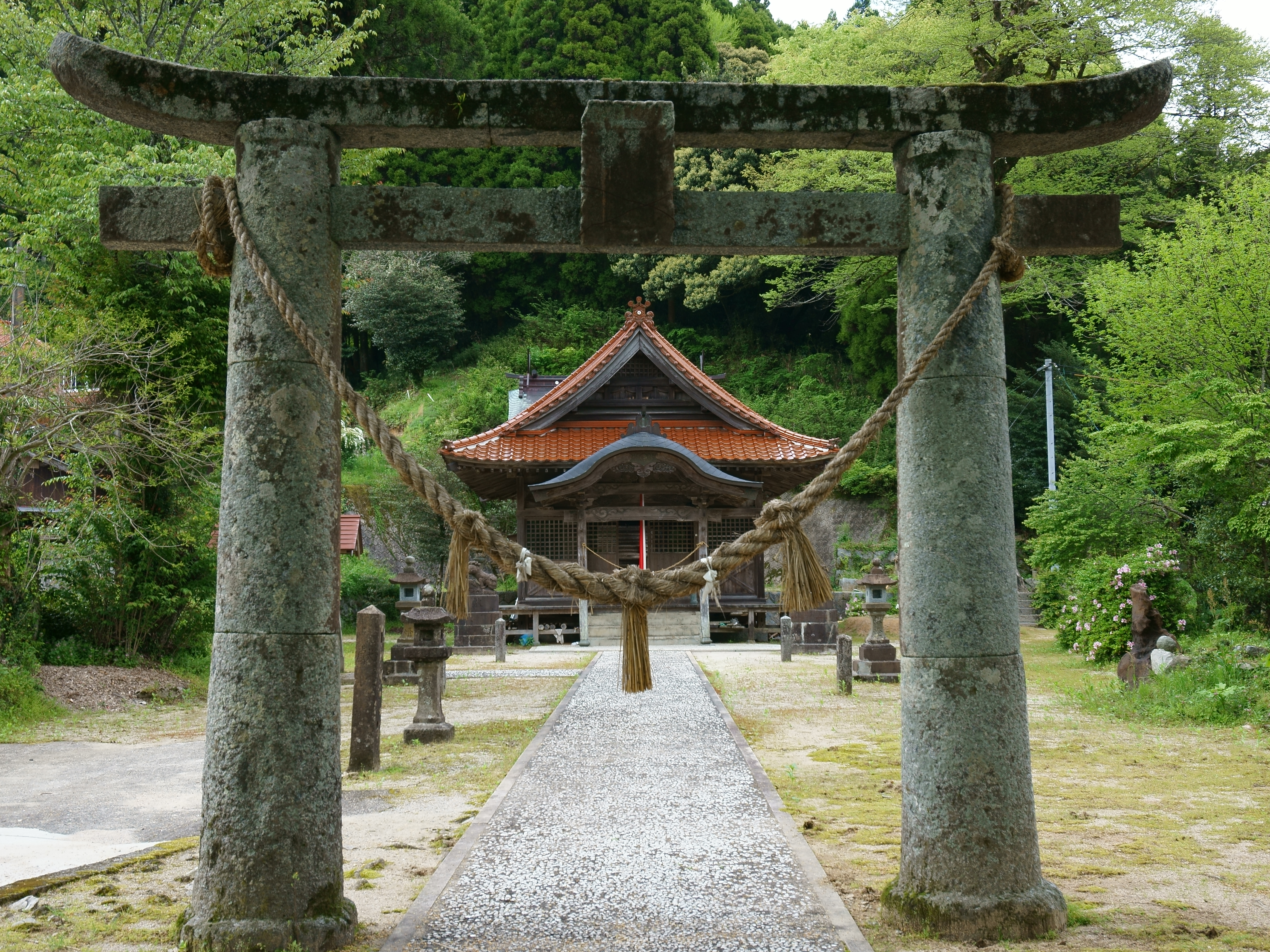 A Torii with Shimenawa and the main hall of Yodohime Shrine in Kamimutsuro, Fuji, Saga city, Saga prefecture.